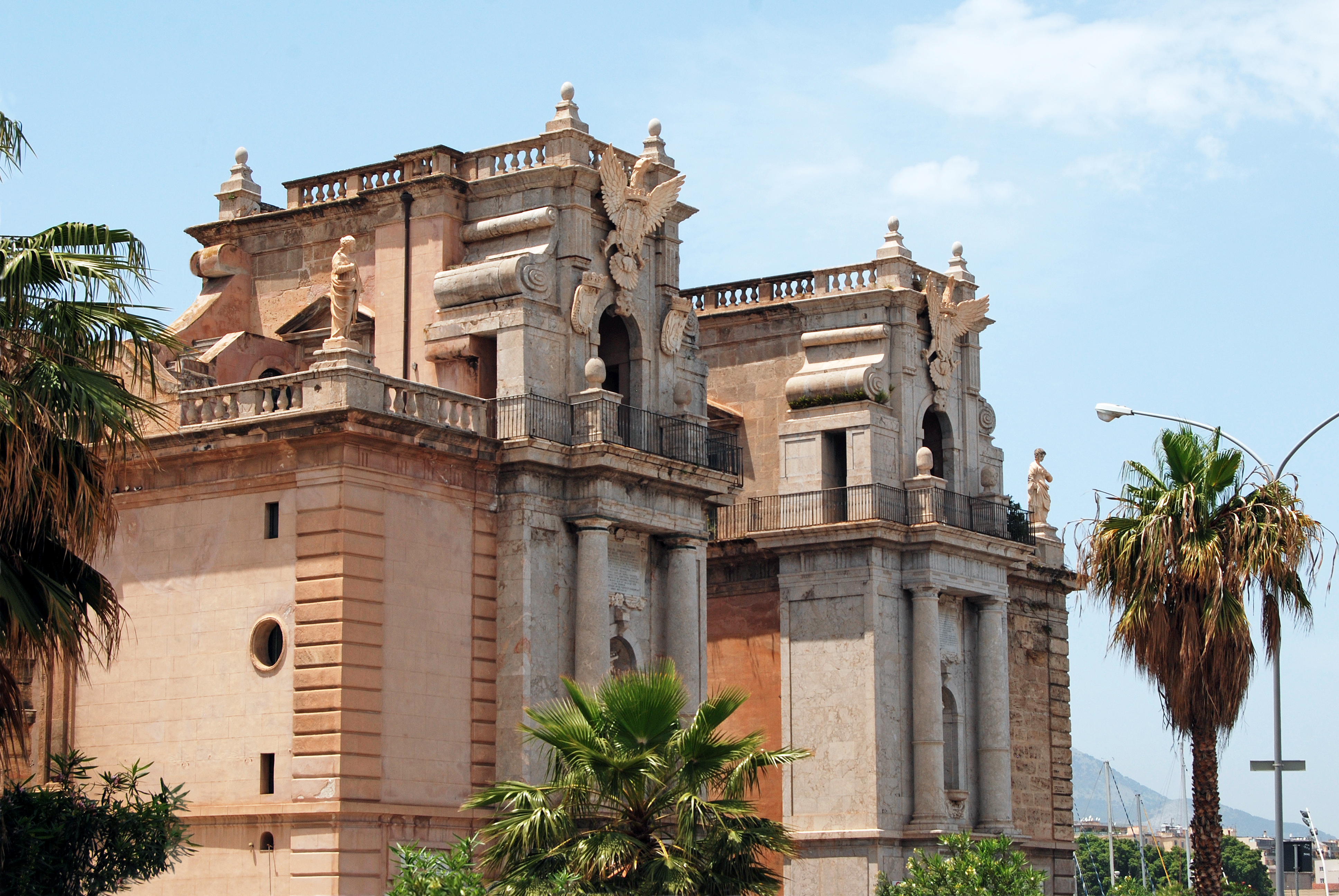 Porta Felice in Palermo. Portal at the beginning of Corso Vittorio Emanuele facing the harbour.